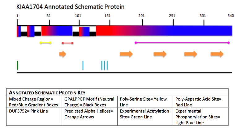 Key features of KIAA1704 protein including charge, motifs, experimental post-translation sites, predicted secondary structure, and conserved domains.